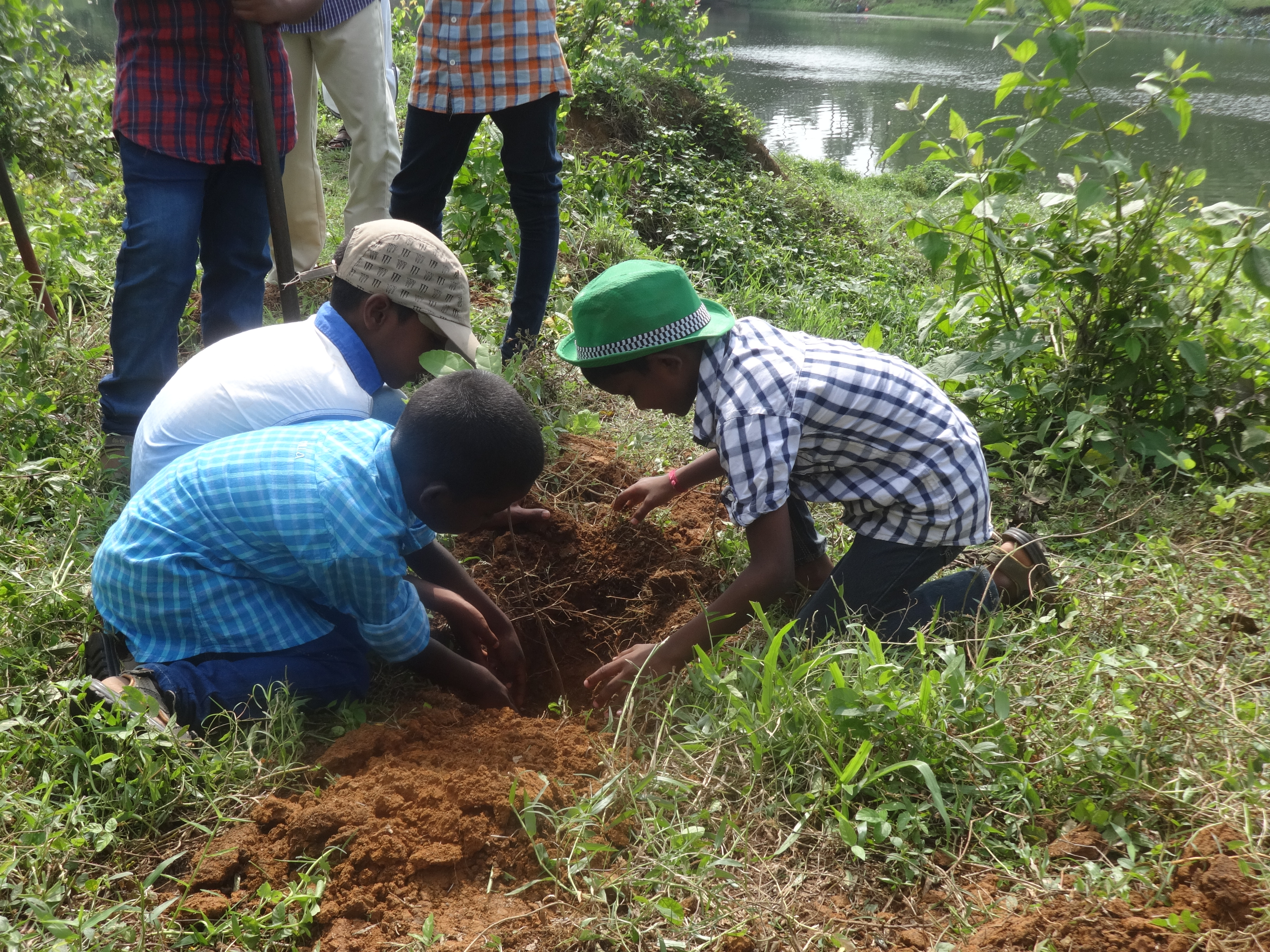 Riparian Restoration efforts from Chalakudy- Canary Club members planting riparian species at Vettukadavu